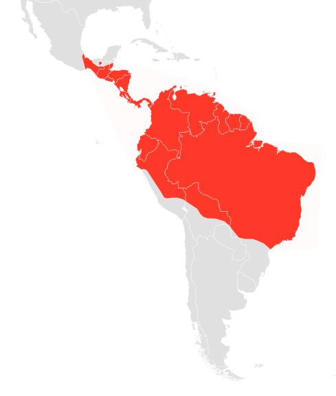 Distribution map of Phyllostomus discolor